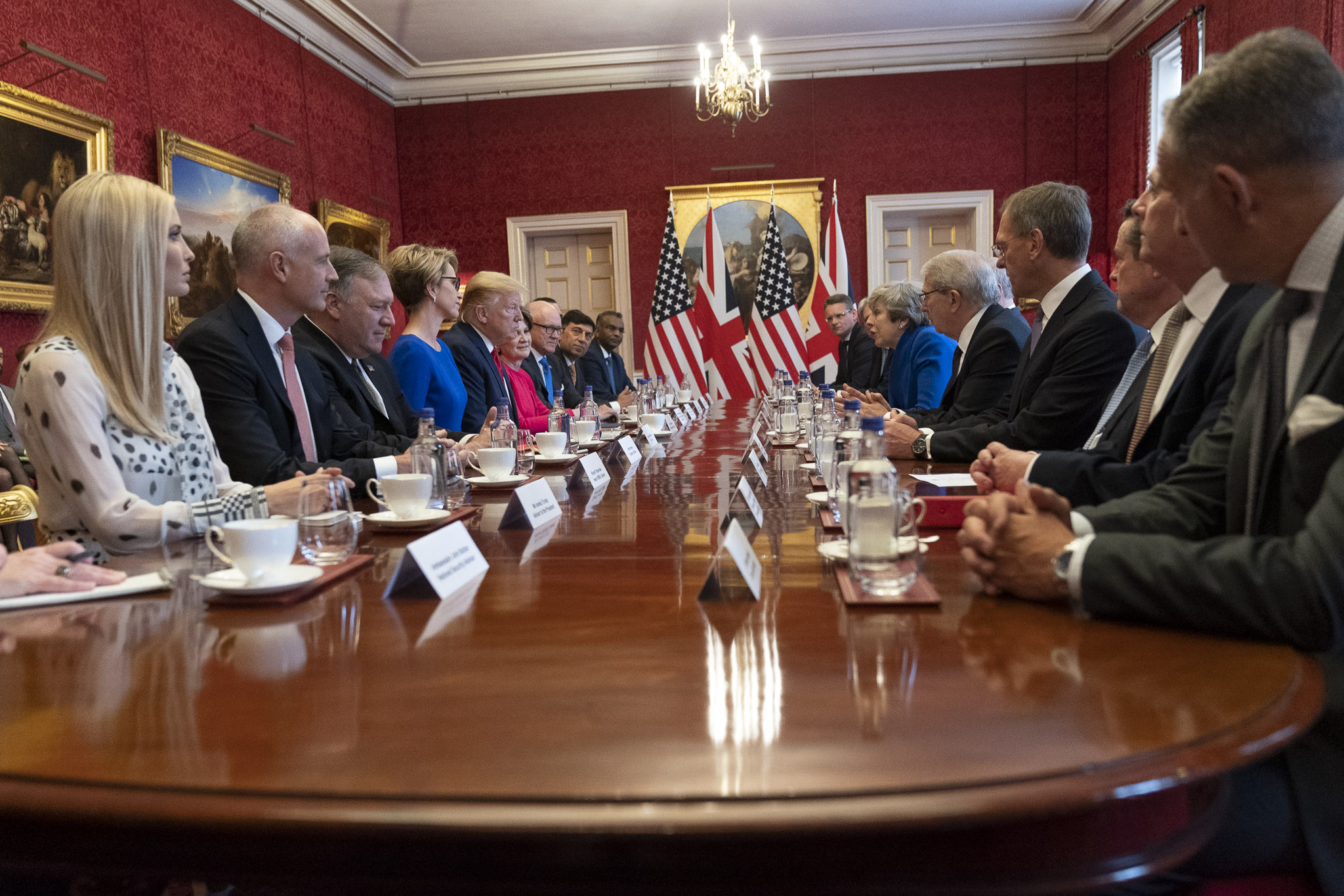 President Donald J. Trump participates in a business roundtable with British Prime Minister Theresa May at St. James’s Palace Tuesday, June 4, 2019 in London. (Official White House Photo by Shealah Craighead)